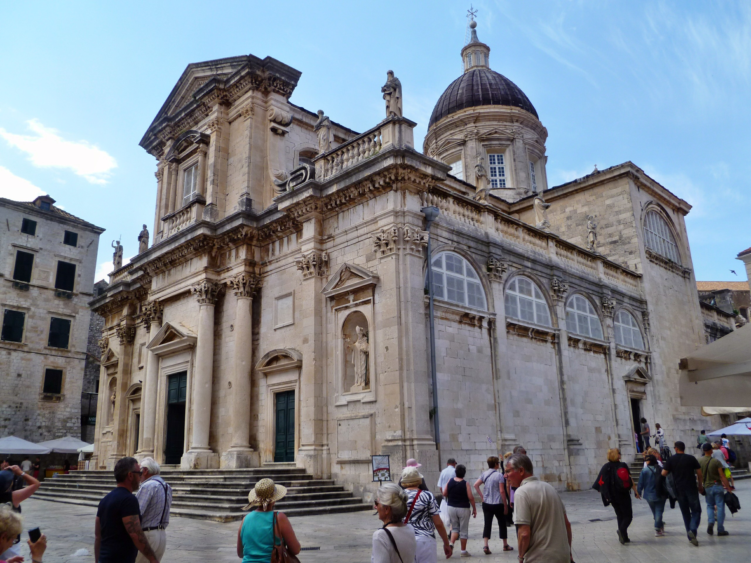 Cathedral of the Assumption of the Virgin; Dubrovnik, Croatia